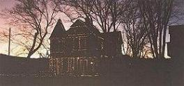 Prescott, Arizona, by night